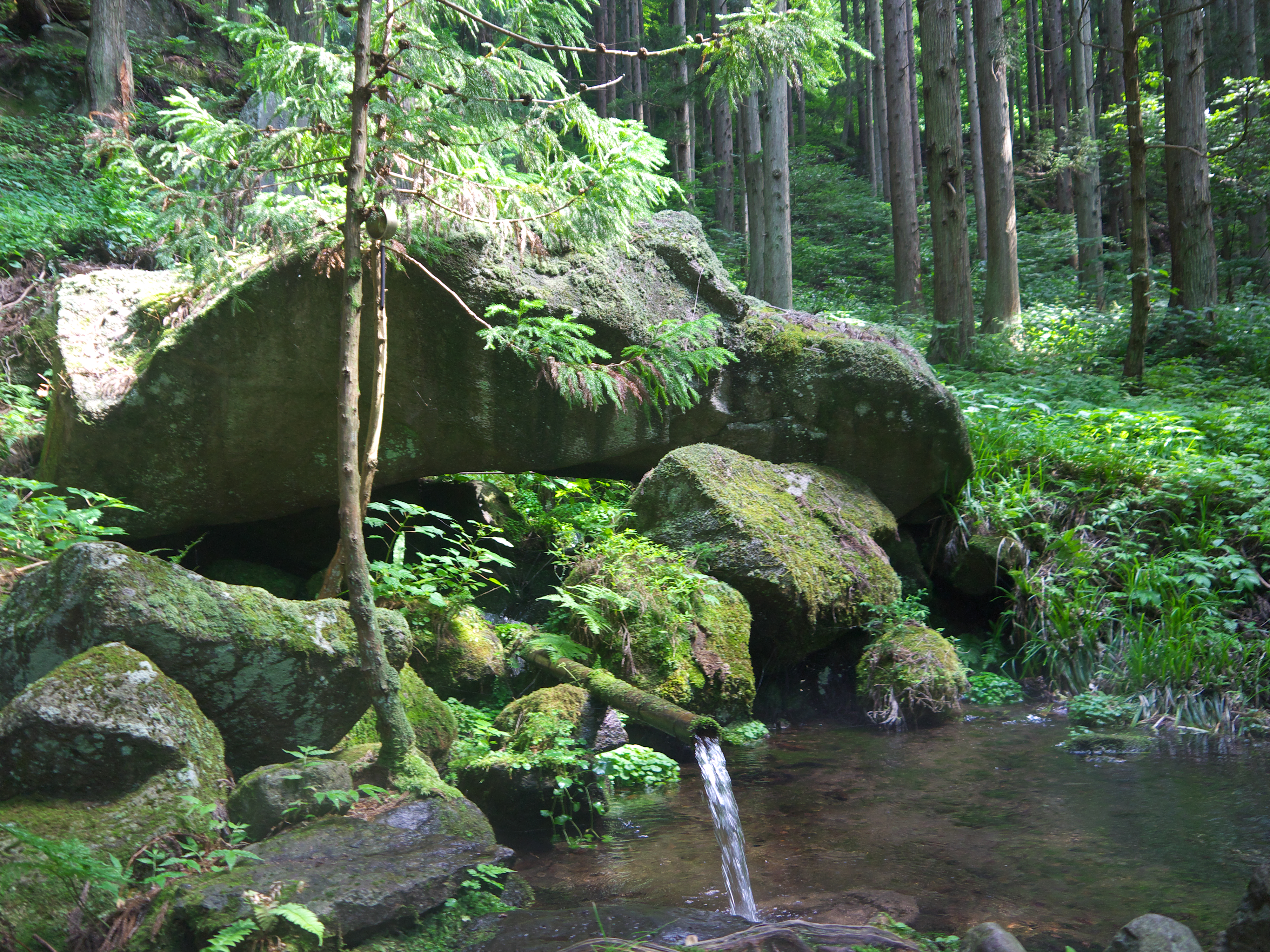 Ryugasawa Spring (Ryugawasa-yusui) in summer